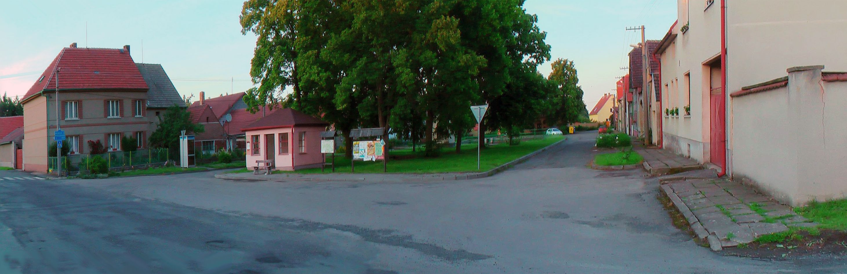 Drnek (Kladno District)